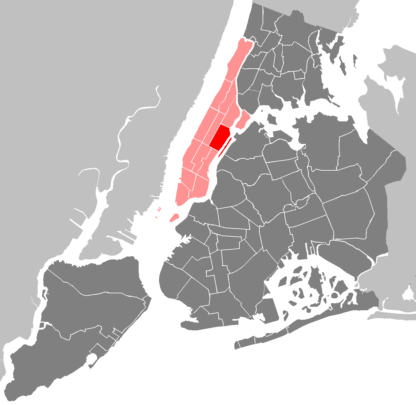 Category:Maps of New York City: New York City - Manhattan - Community Board 8.PNG